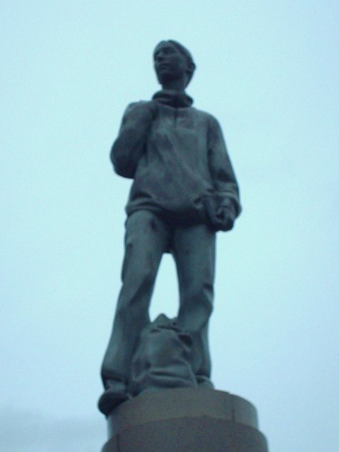 Gorbals Girl